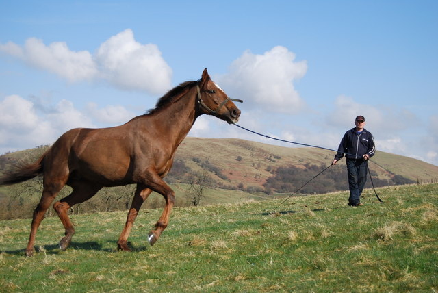 Horse Training Wattie Adams, exercising one of his horses in readiness for the racing season.